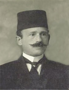 Lef Nosi